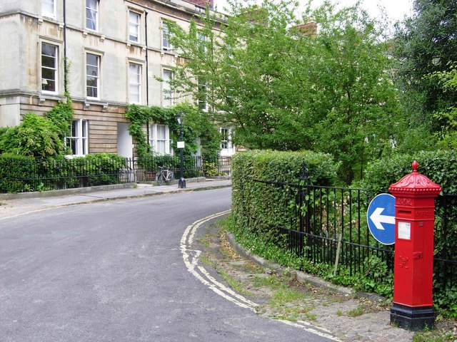 Park Town, Oxford, England. Part of residential terrace built in the 1850s, with Victorian Penfold-type pillar box